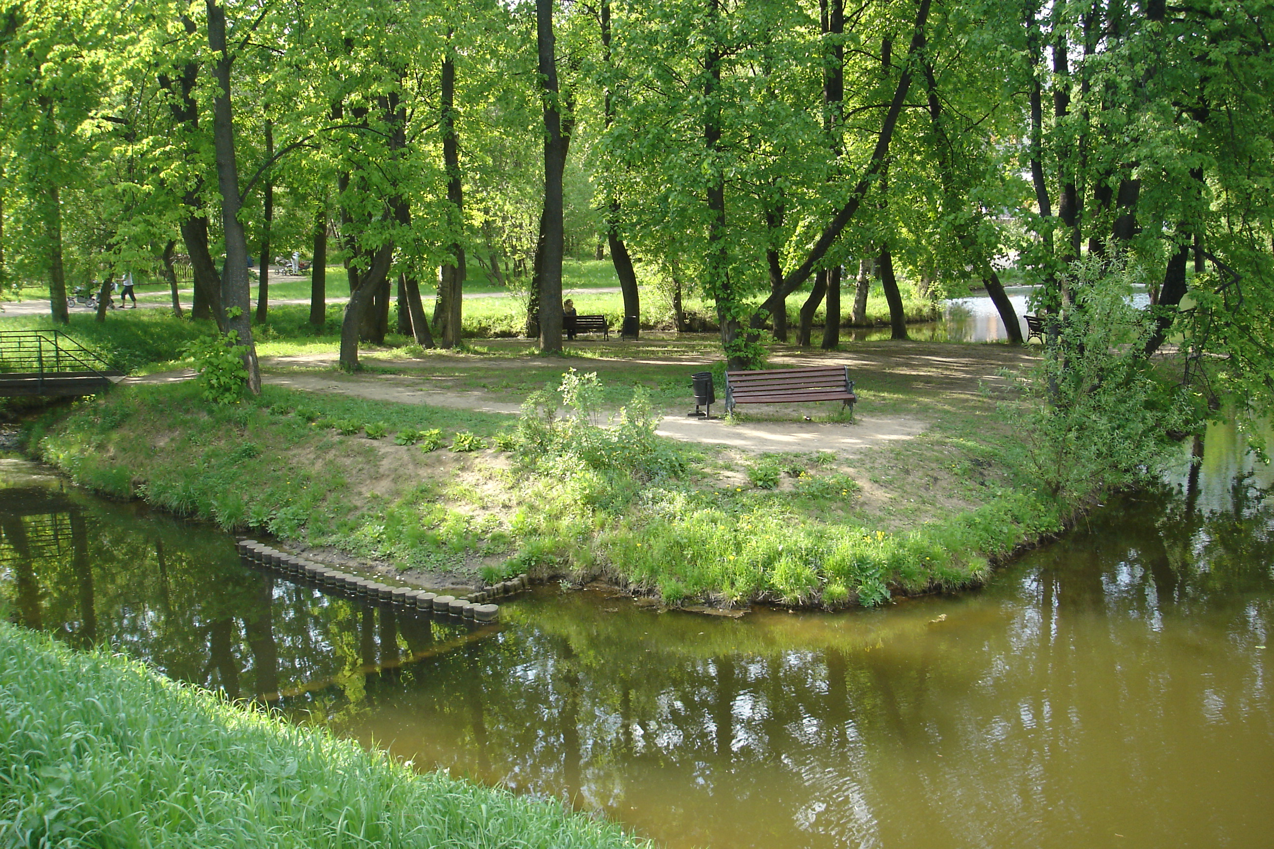 Vorontsovo manor Park. Pond in park - part of the 5 ponds cascade.